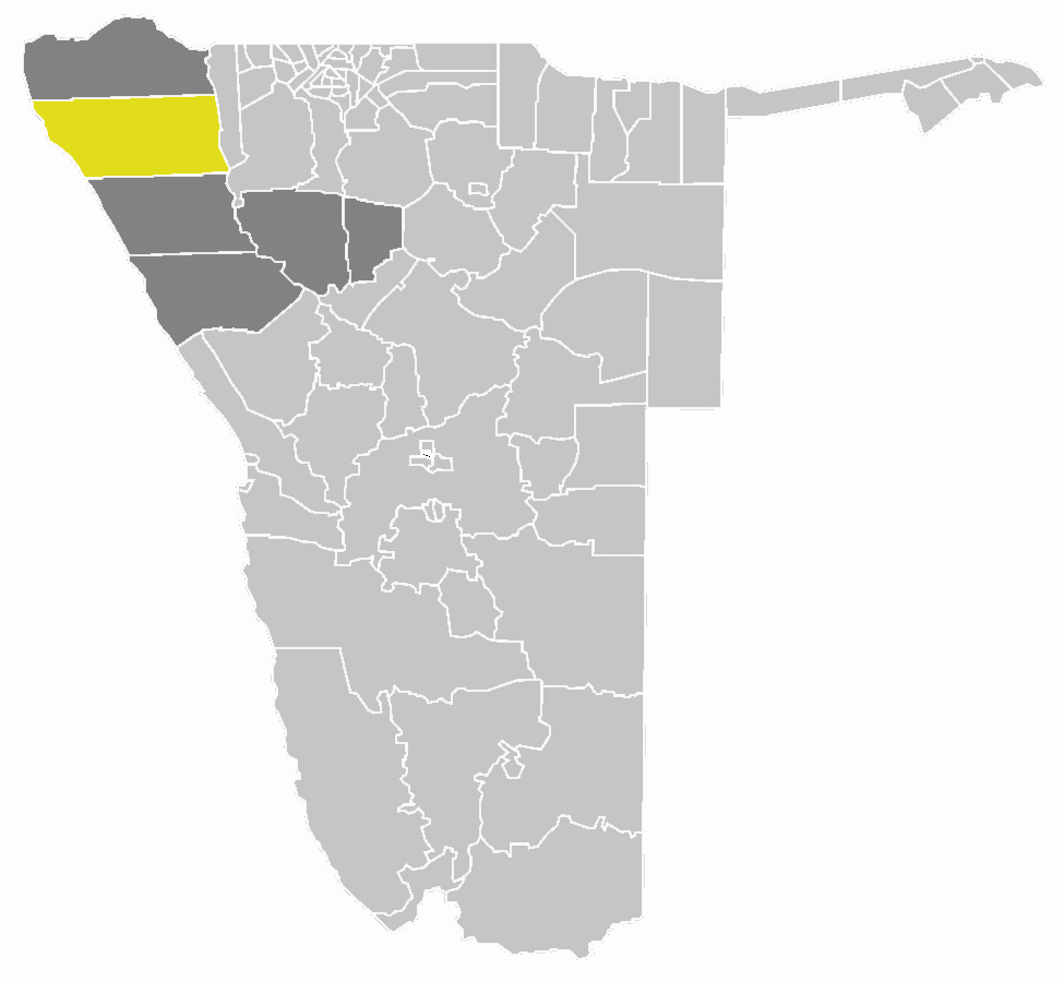 map of the Opuwo constituency within the Kunene region, Namibia